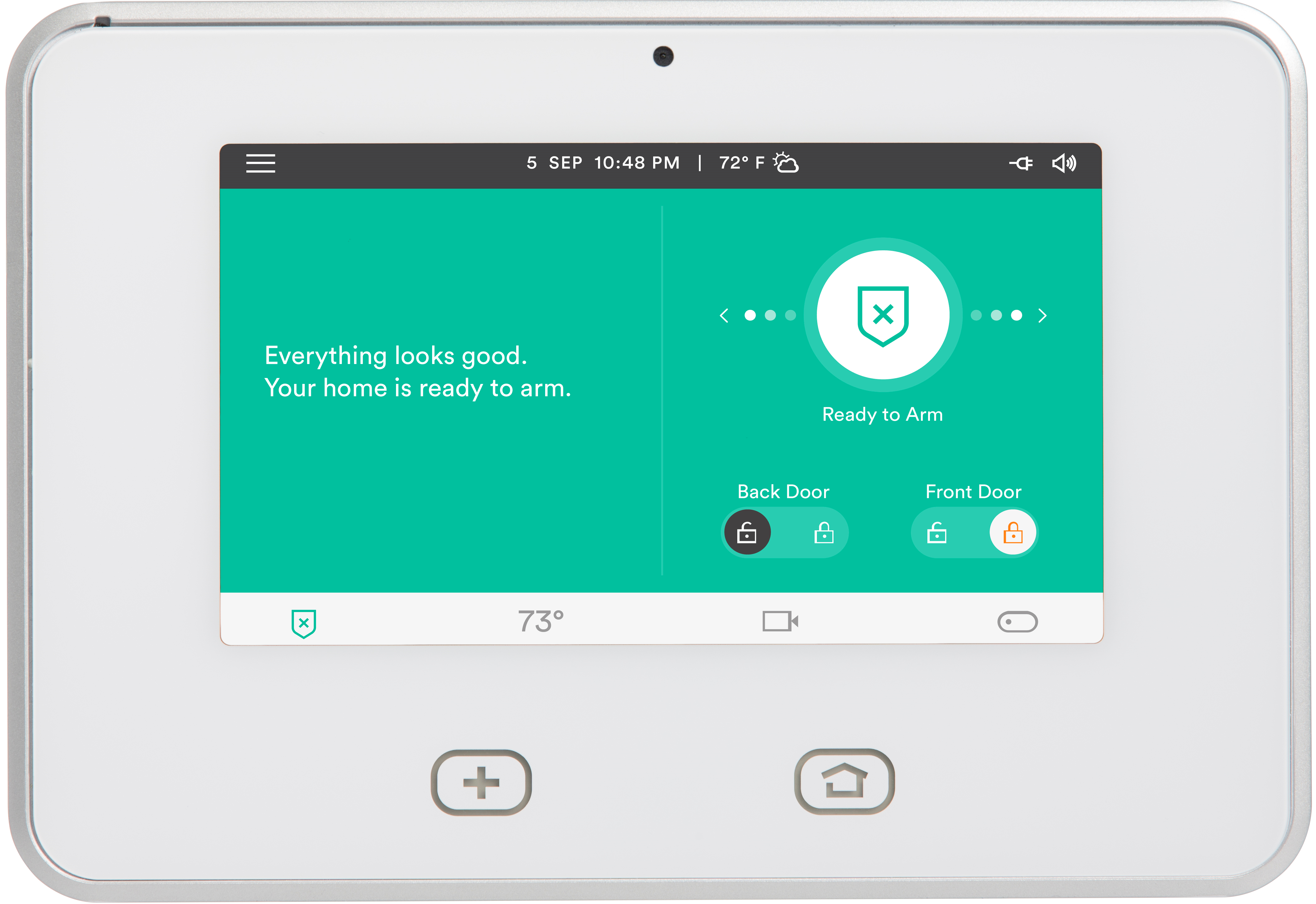 A touchscreen home automation hub, Skycontrol by Vivint.